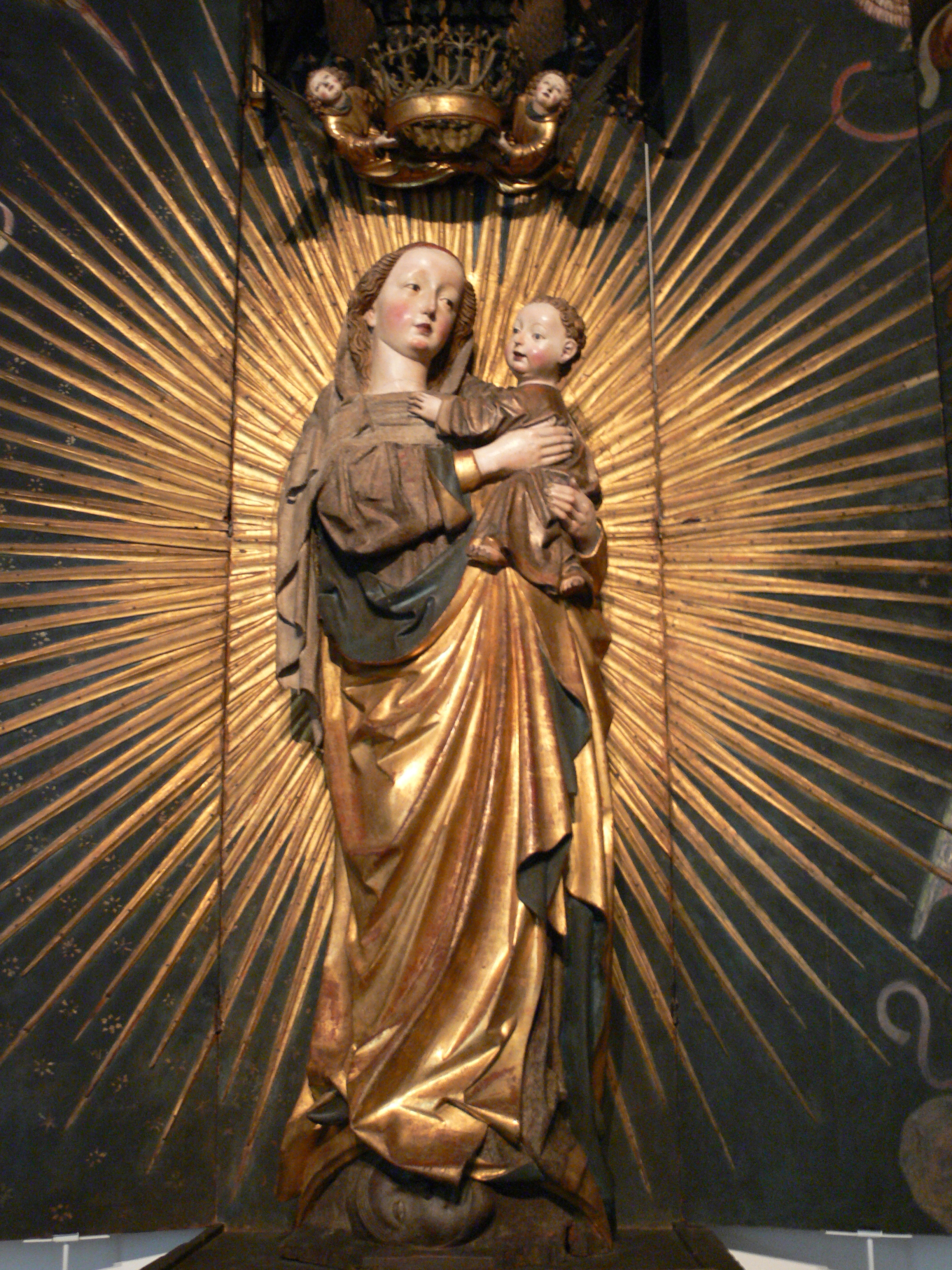 Baldachin Atlarpiece with Madonna on the crescent; Middle Franconia, 1477; from the Parish Church St. Andreas, Weißenburg, Middle Franconia; Madonna Bayerisches Nationalmuseum München (Inv. Nr. MA 1961, erworben 1856/57)